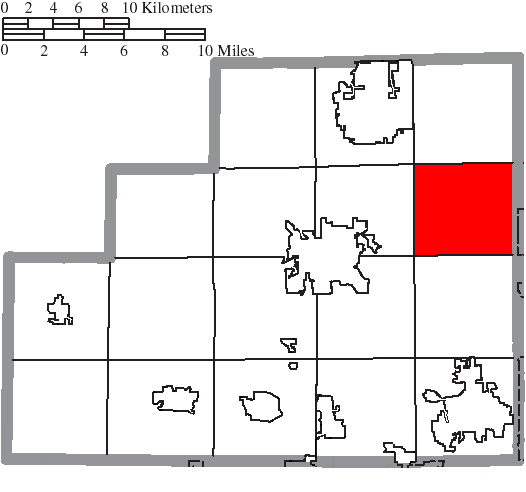 Map of the municipal and township boundaries of Medina County, Ohio, United States, as of the 2000 census, with the location of Granger Township highlighted. Township borders are shown only in unincorporated areas in order to differentiate incorporated and unincorporated areas more clearly.